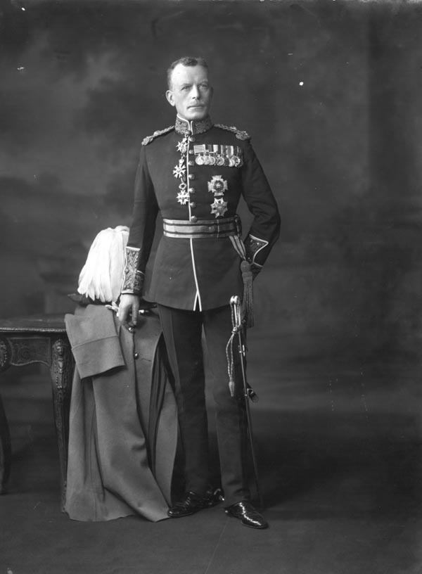 Sir Charles James Briggs in uniform of Colonel, King's Dragoon Guards.